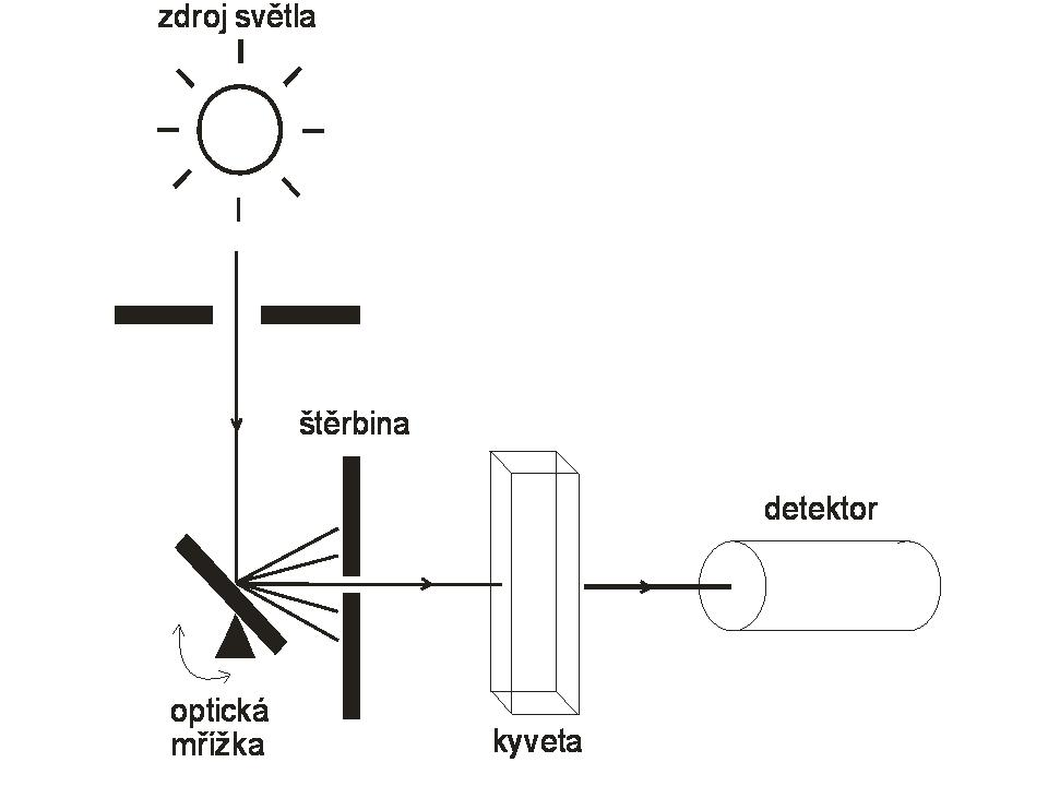 Spectrophotometer